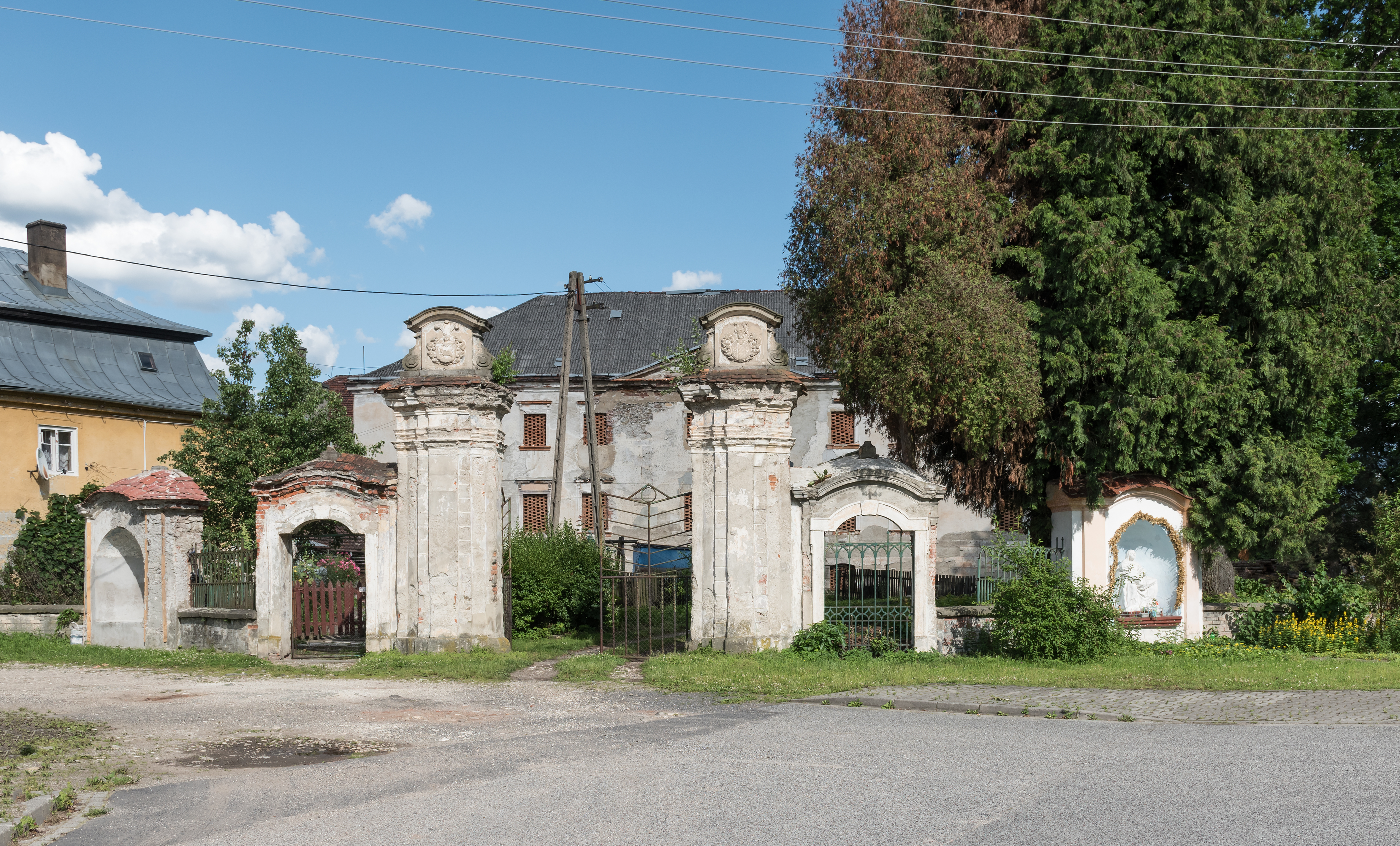 Magnis palace in Ołdrzychowice Kłodzkie